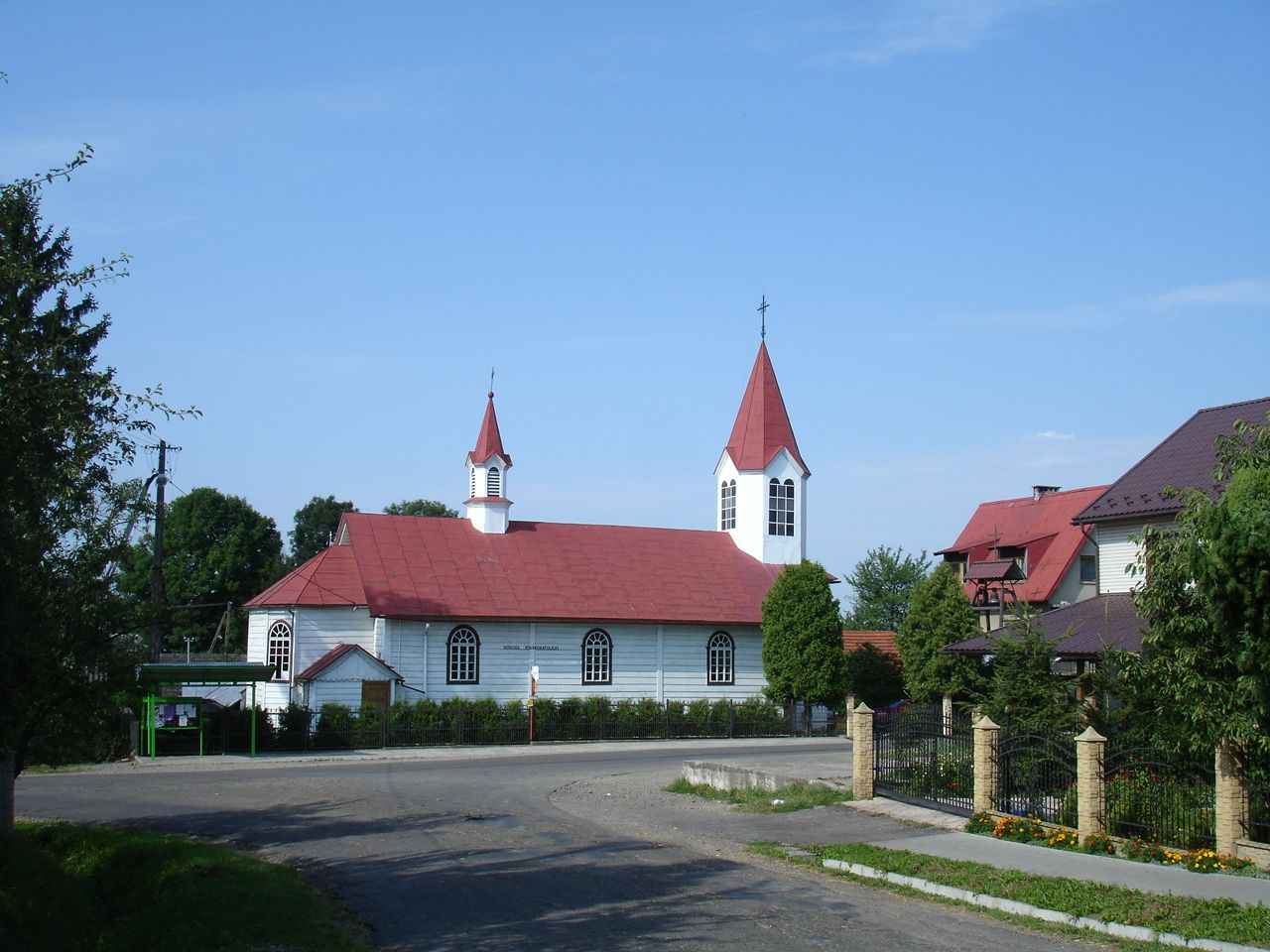 Polish national catholic church in Bażanówka